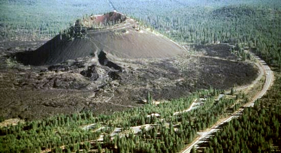 Lava Butte in Newberry National Volcanic Monument, Oregon